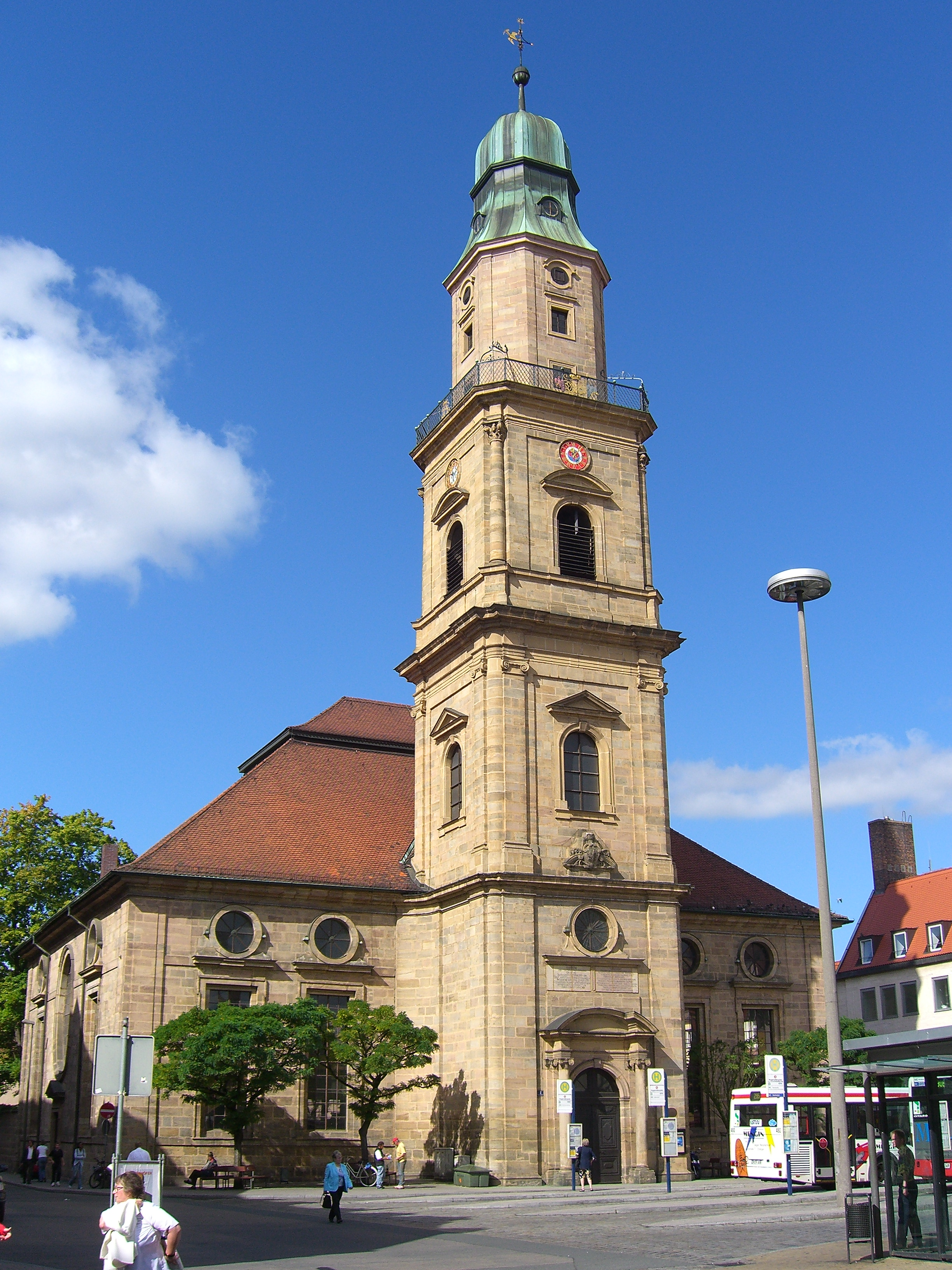 The „Hugenotten-Kirche“ (Huguenots church) at the Hugenottenplatz in Erlangen.